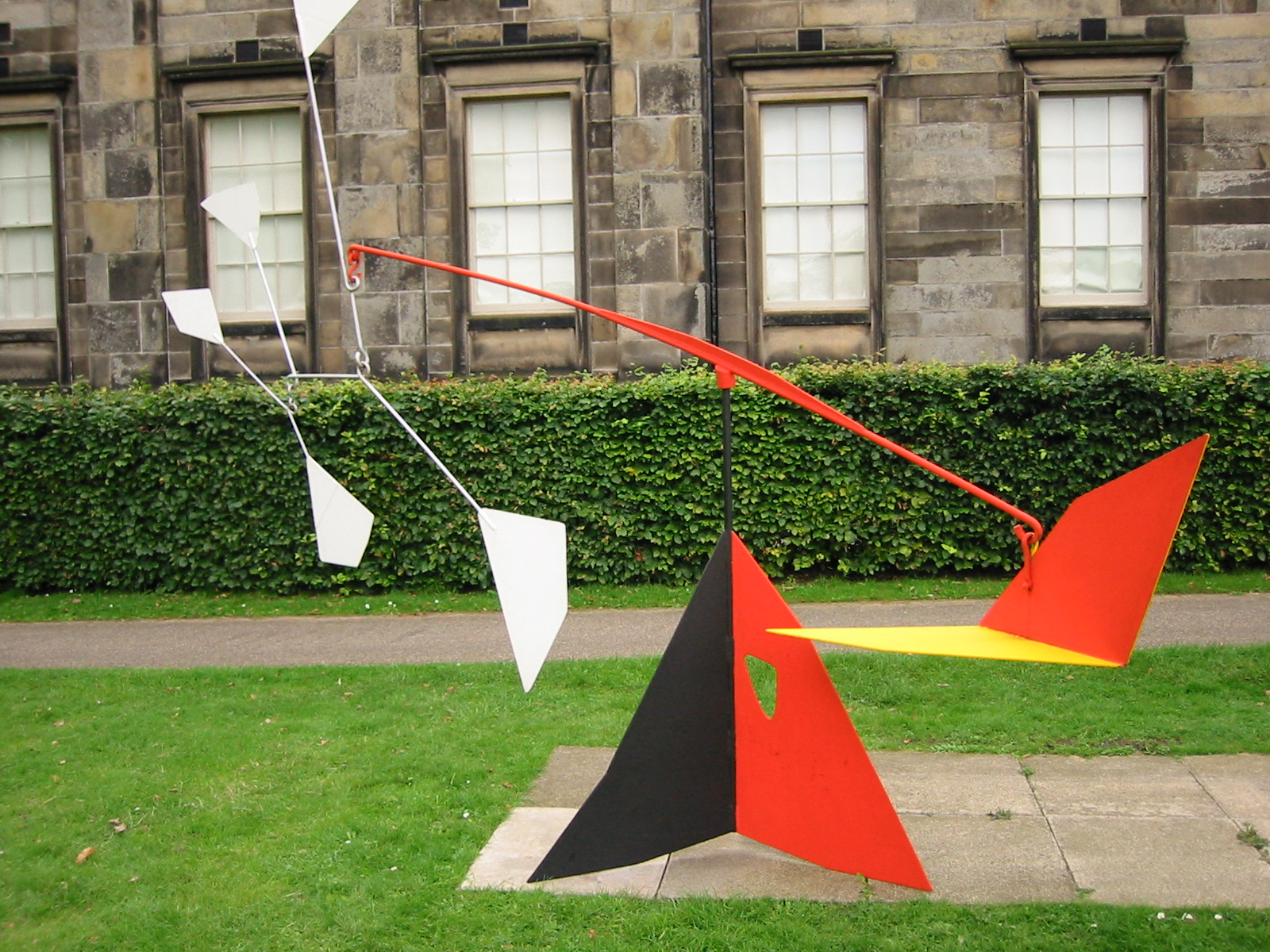 Alexander Calder's L'empennage (1953) Pictured in 2002 when it was displayed in the sculpture garden of the Scottish National Gallery of Modern Art.